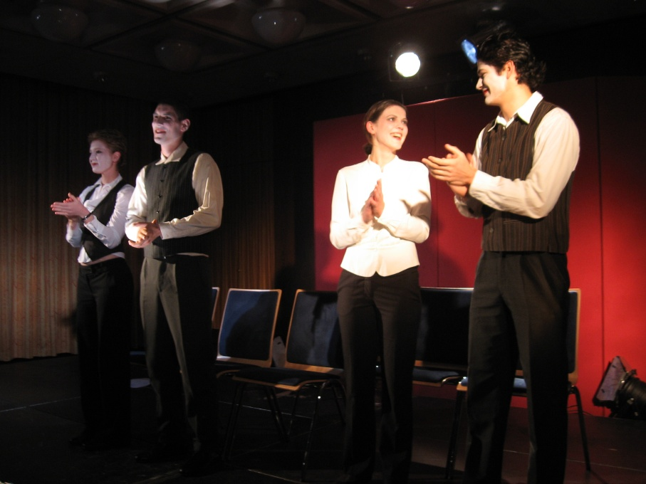 The play "The death of Firs" performed by the student theater of the Institute of Slavistics of the University of Giessen on the play of playwright Vadim Levanov. Firs's role was played by Katarina Kappes (third from the left). Giessen, Germany.